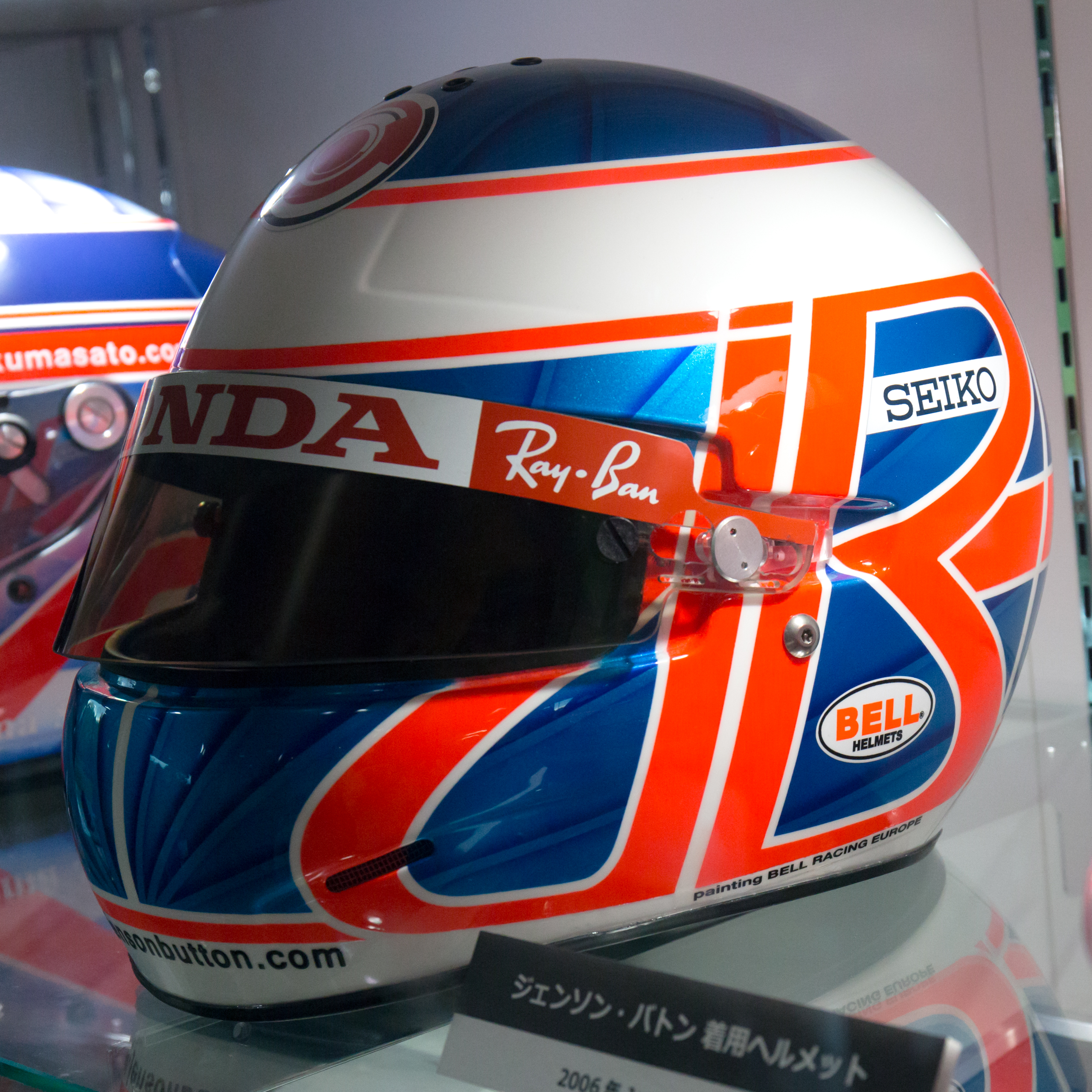 Jenson Button's 2006 helmet